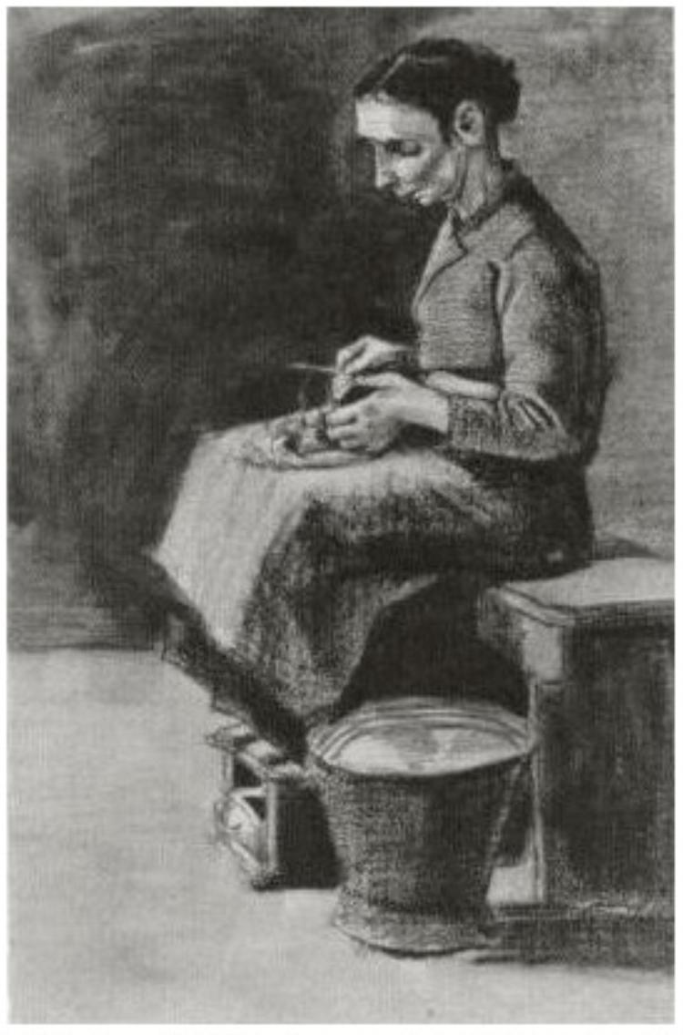 Sien,-Peeling-Potatoes F1053a Vincent van Gogh